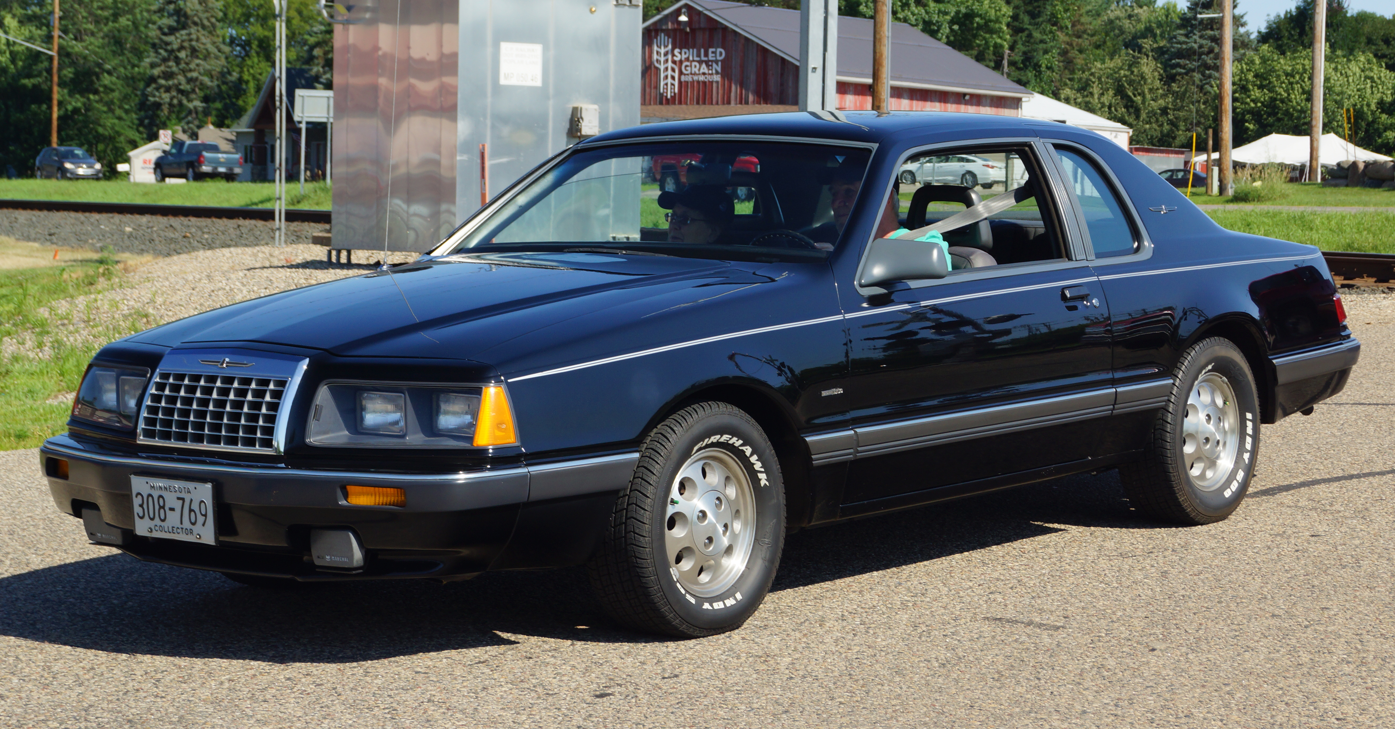 Classic Rides & Rods Classic Car Show 220 Poplar Lane Annandale, Minnesota July 8, 2018 *Click here for more car pictures by make Click here for Car Event pictures by year. Or here for my Car Crazy Tumblr site. Or on Twitter @DVS1mn.